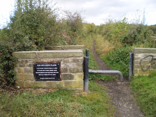 The Inclined Plane Footpath that now runs along the former rope-hauled inclined tramway between Milton Ironworks and Elsecar canal basin.